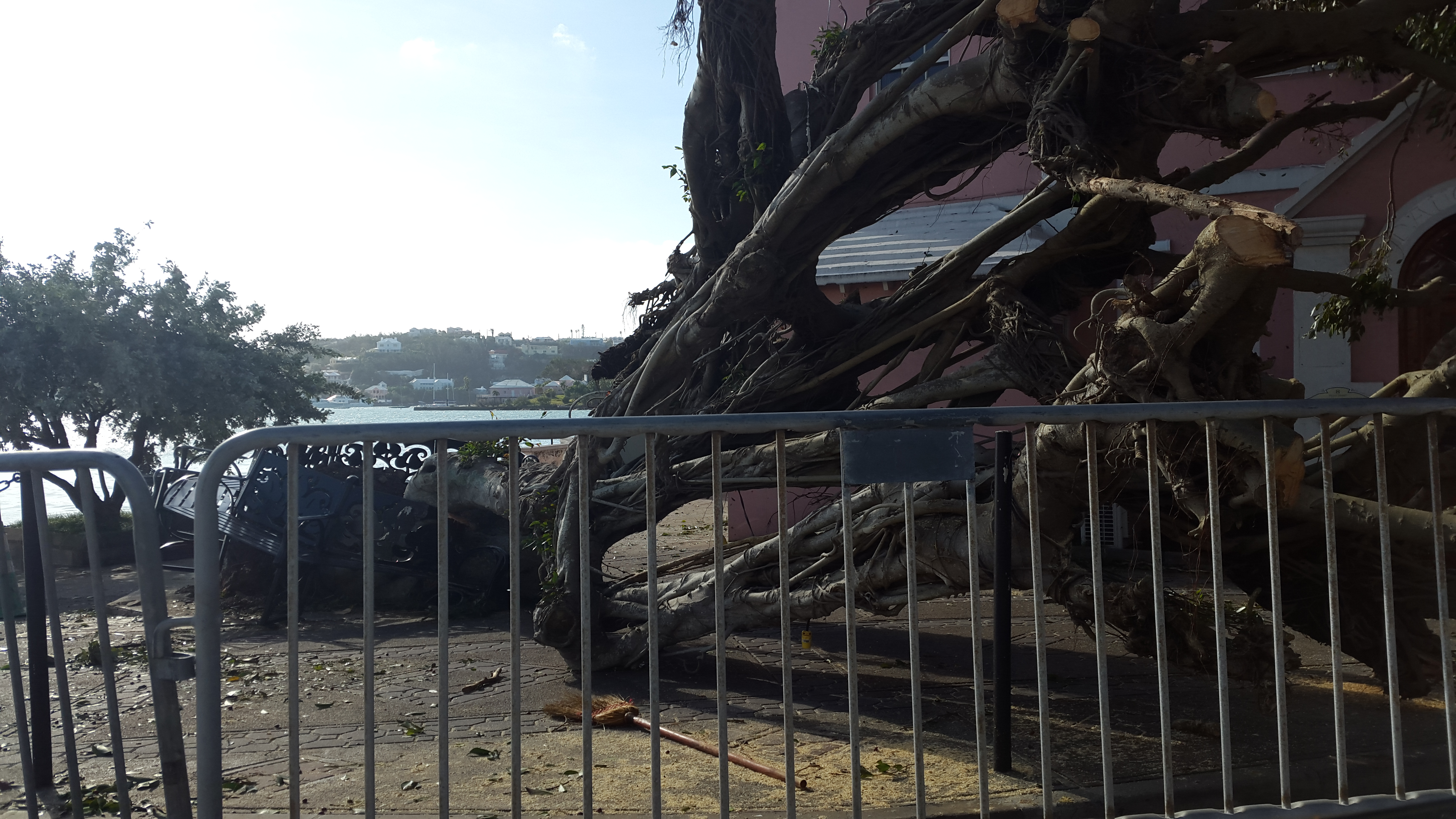 Downed trees in front of Dangelini’s coffee shop on Front Street, Hamilton, Bermuda, near the Hamilton Ferry Terminal. Credit: Camille Haley NASA image use policy. NASA Goddard Space Flight Center enables NASA’s mission through four scientific endeavors: Earth Science, Heliophysics, Solar System Exploration, and Astrophysics. Goddard plays a leading role in NASA’s accomplishments by contributing compelling scientific knowledge to advance the Agency’s mission. Follow us on Twitter Like us on Facebook Find us on Instagram